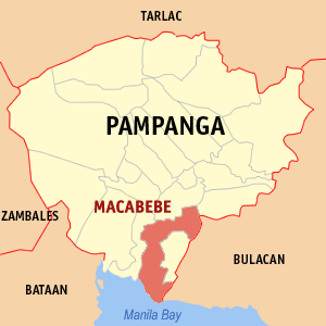 Map of Pampanga showing the location of Macabebe